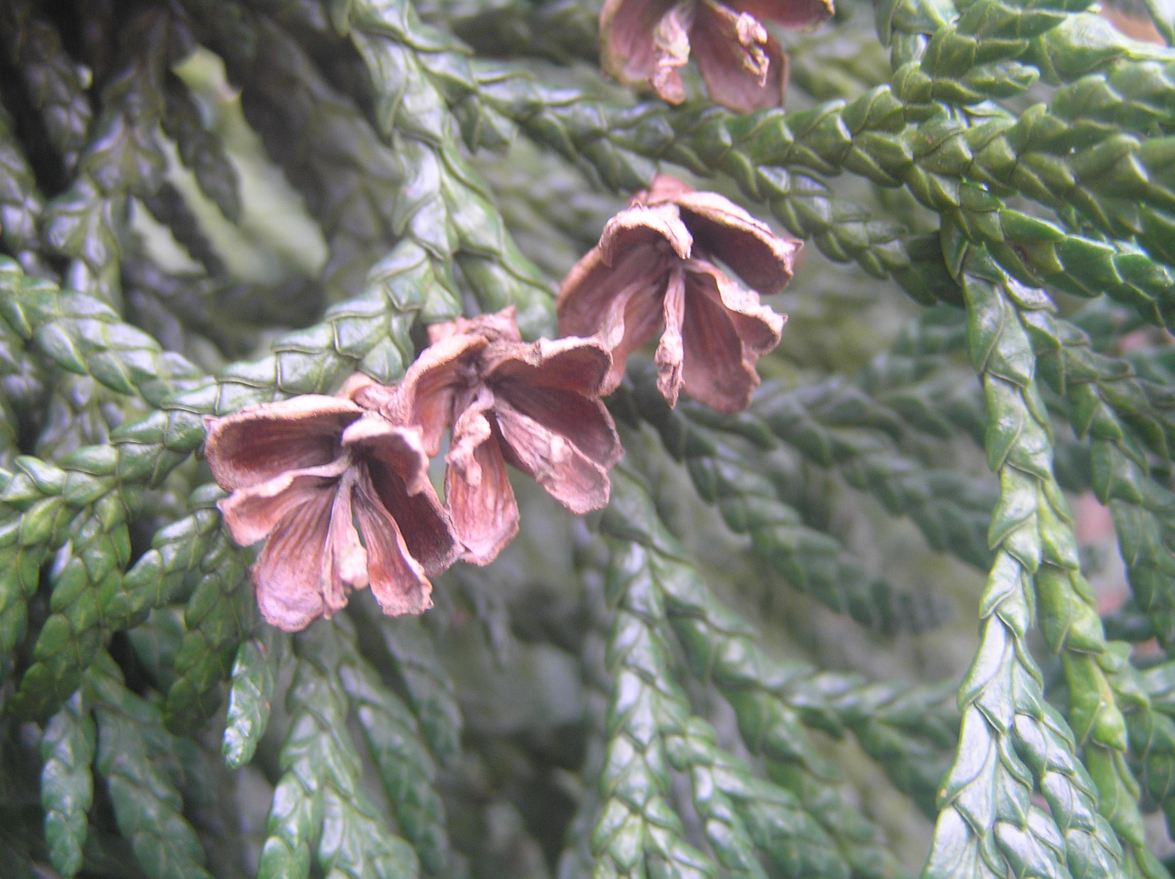 Thuja standishii, cultivated in Brno, Czech Republic